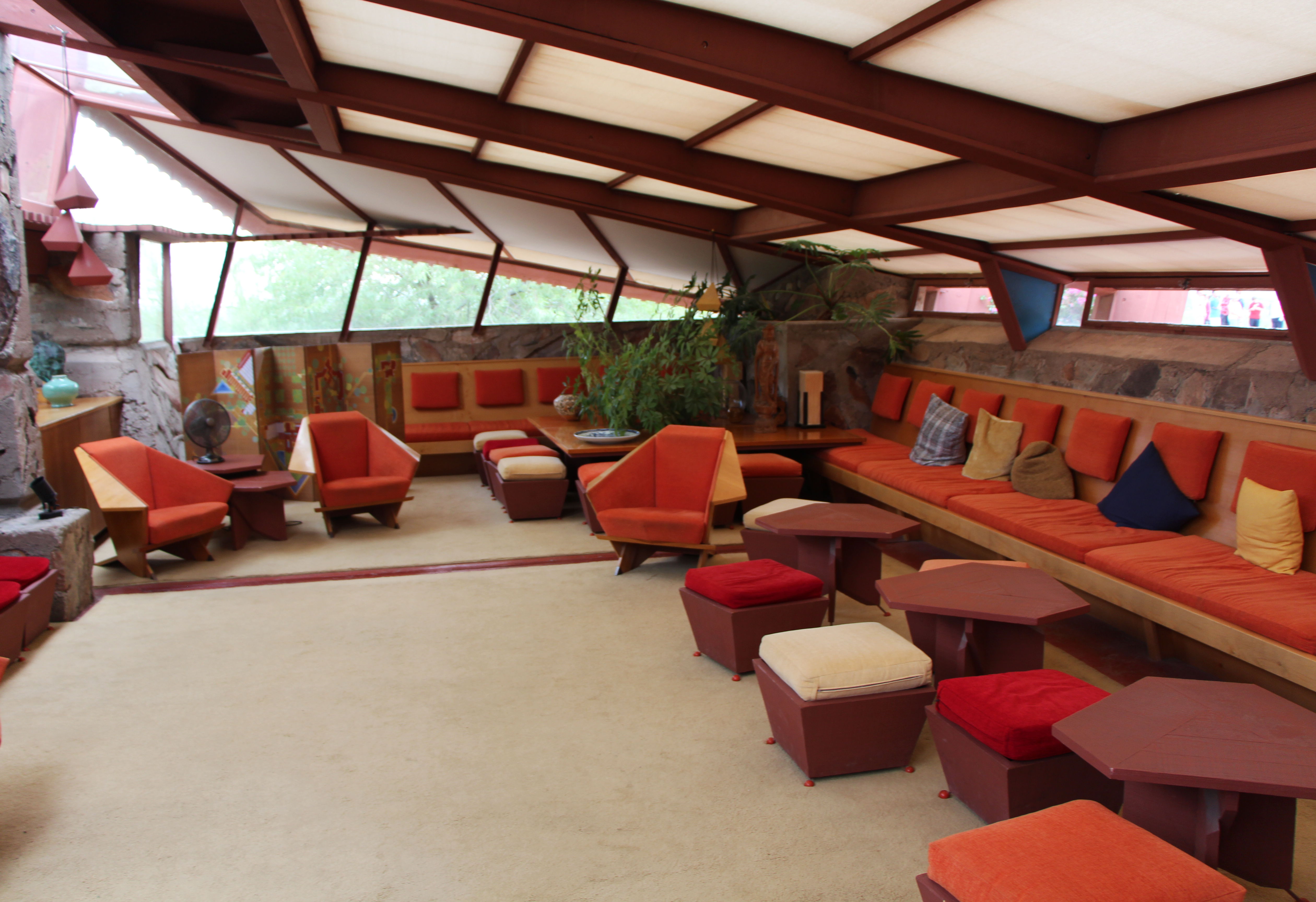 Taliesin West Garden Room Main Room, AZ